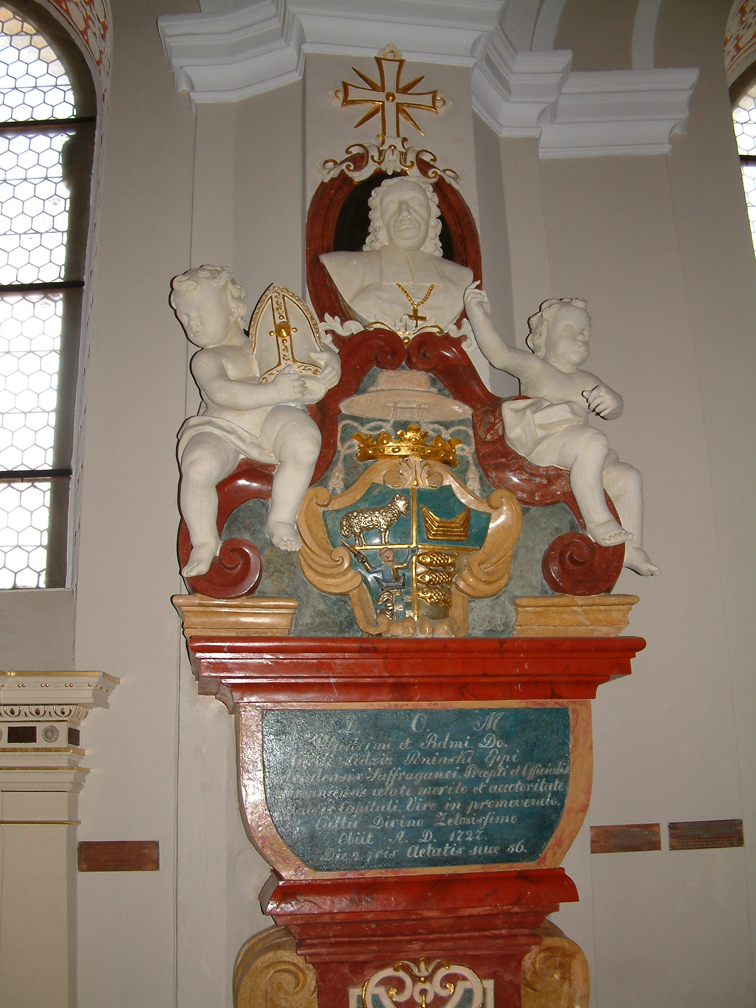 Epitaph of suffragan bishop of Poznań Karol Poniński of Łodzia Coat of Arms in Poznań Archcatherdral Basilica